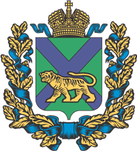 Primorsky kray (Marine Territory), large coat of arms